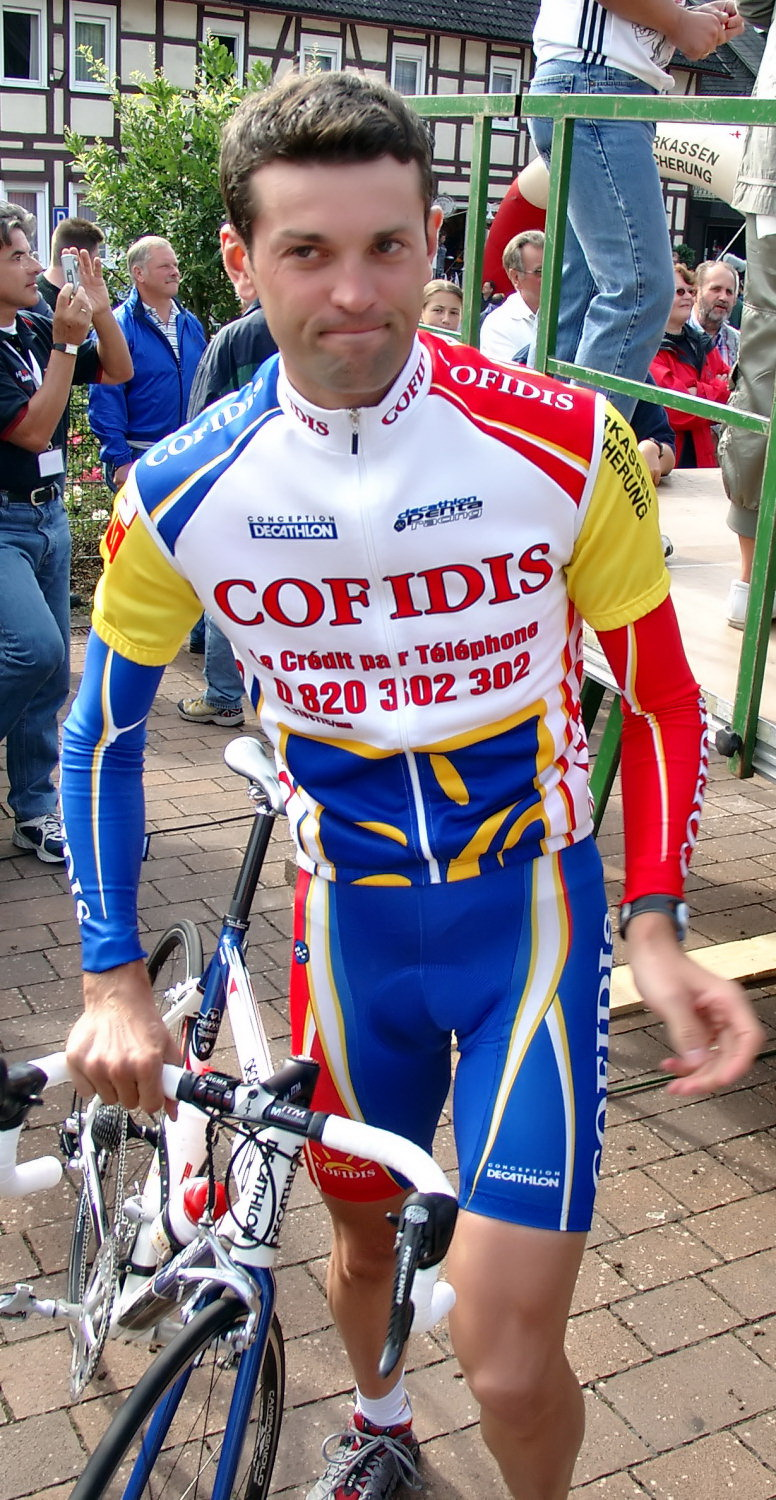 Cédric Vasseur at race in Germany